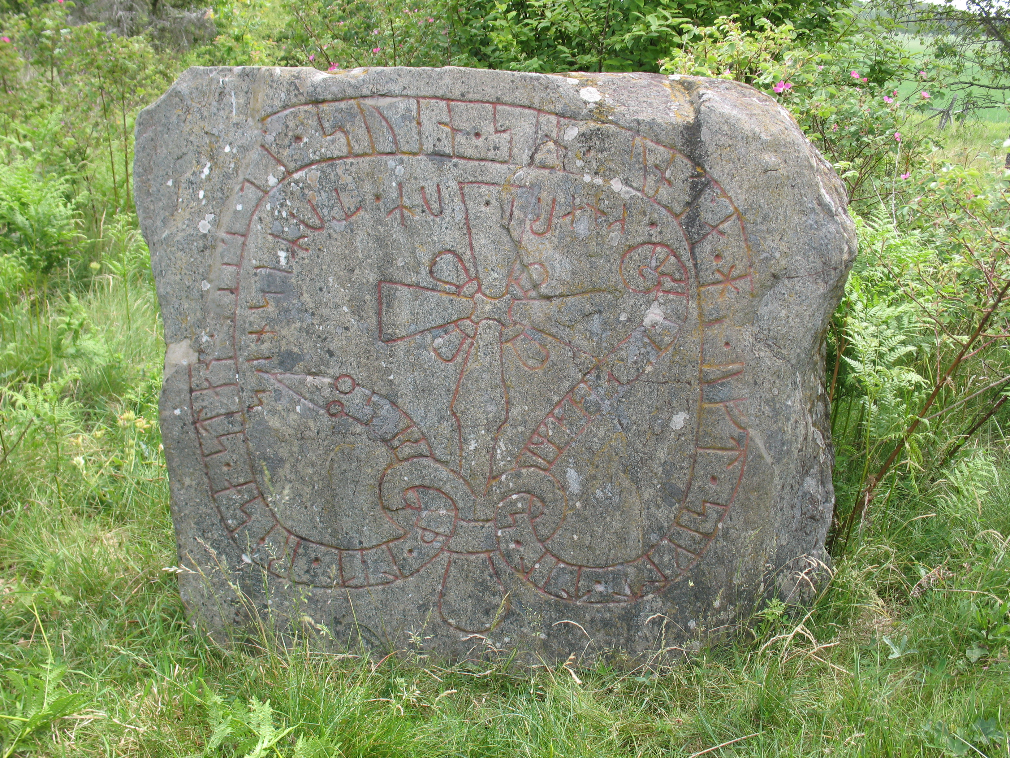 Runestone SÖ198 in Södermanland, Sweden.